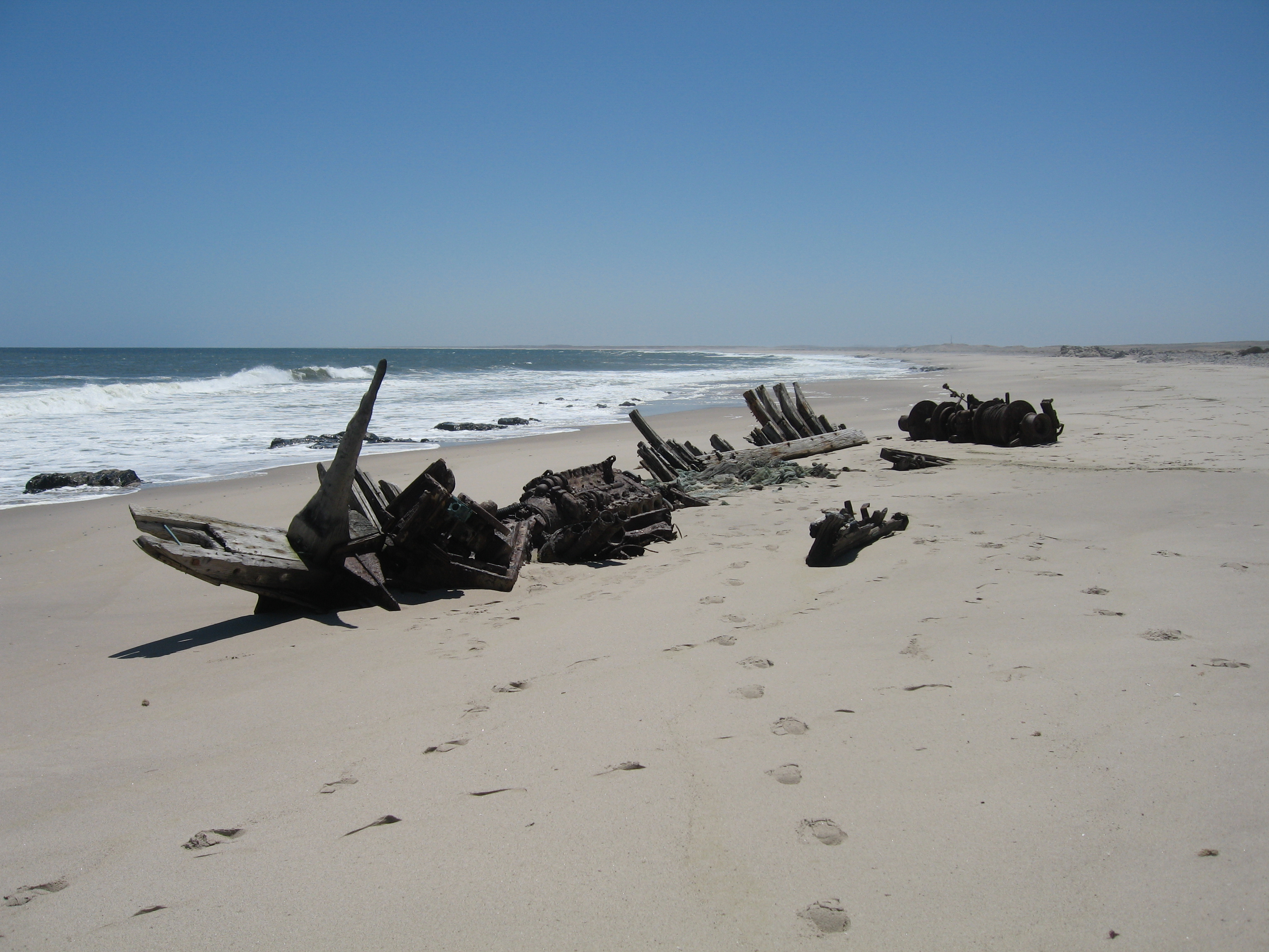 Shipwreck of the «Southwest Seal» (1976) at the Skeleton Coast, Namibia